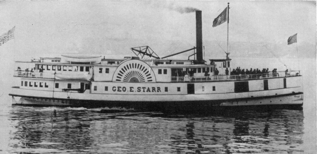 George E. Starr, sidewheel steamboat.